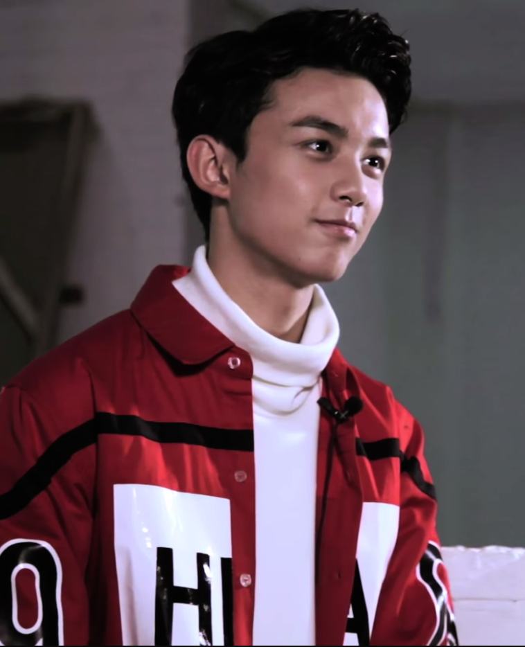 Wu Lei being interviewed in December 2015 for C China